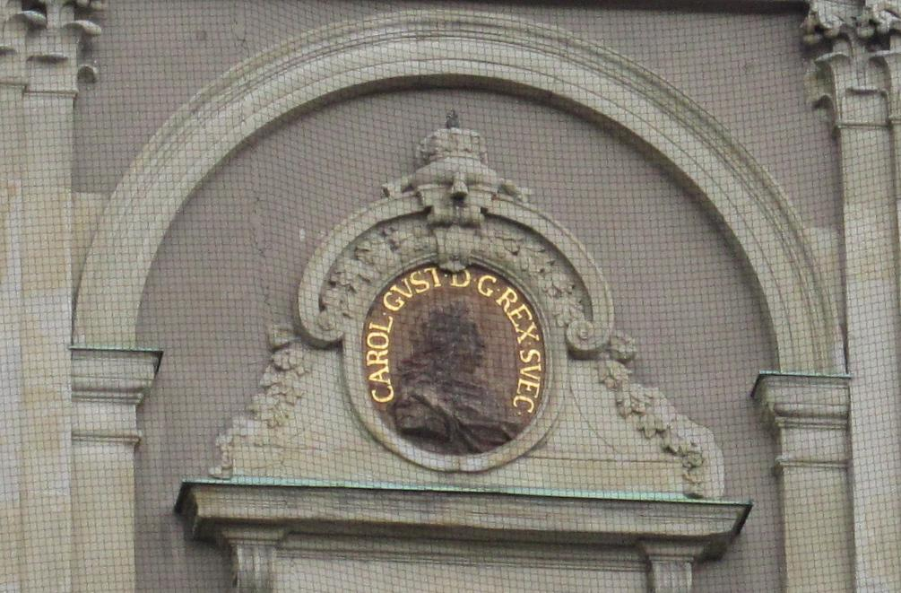 King Charles X Gustav of Sweden, as released by image creator Ristesson HistoryPlace: Stockholm Palace, Sweden